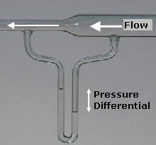 Photo of a Venturi tube with labels